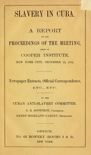 This is a picture of the cover of the report on the minutes for the first meeting of the Cuban Anti-Slavery Committee, held at the Cooper Institute in New York City on December 13, 1872.